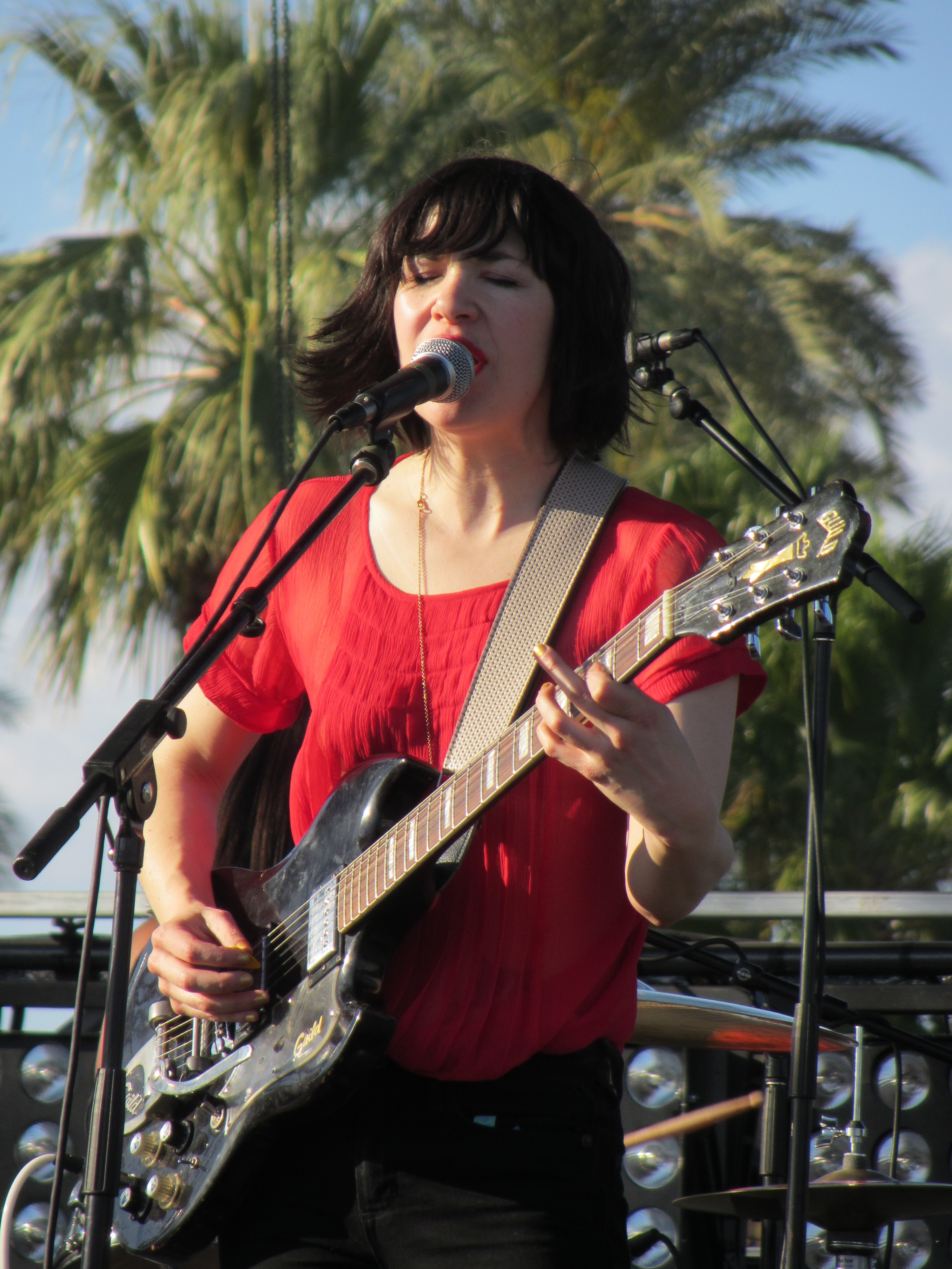 Our voyage comes to an end on Sunday (always nostalgic and sad) at Coachella 2012 Weekend 1: Day 3 (4/15) Indio, CA.